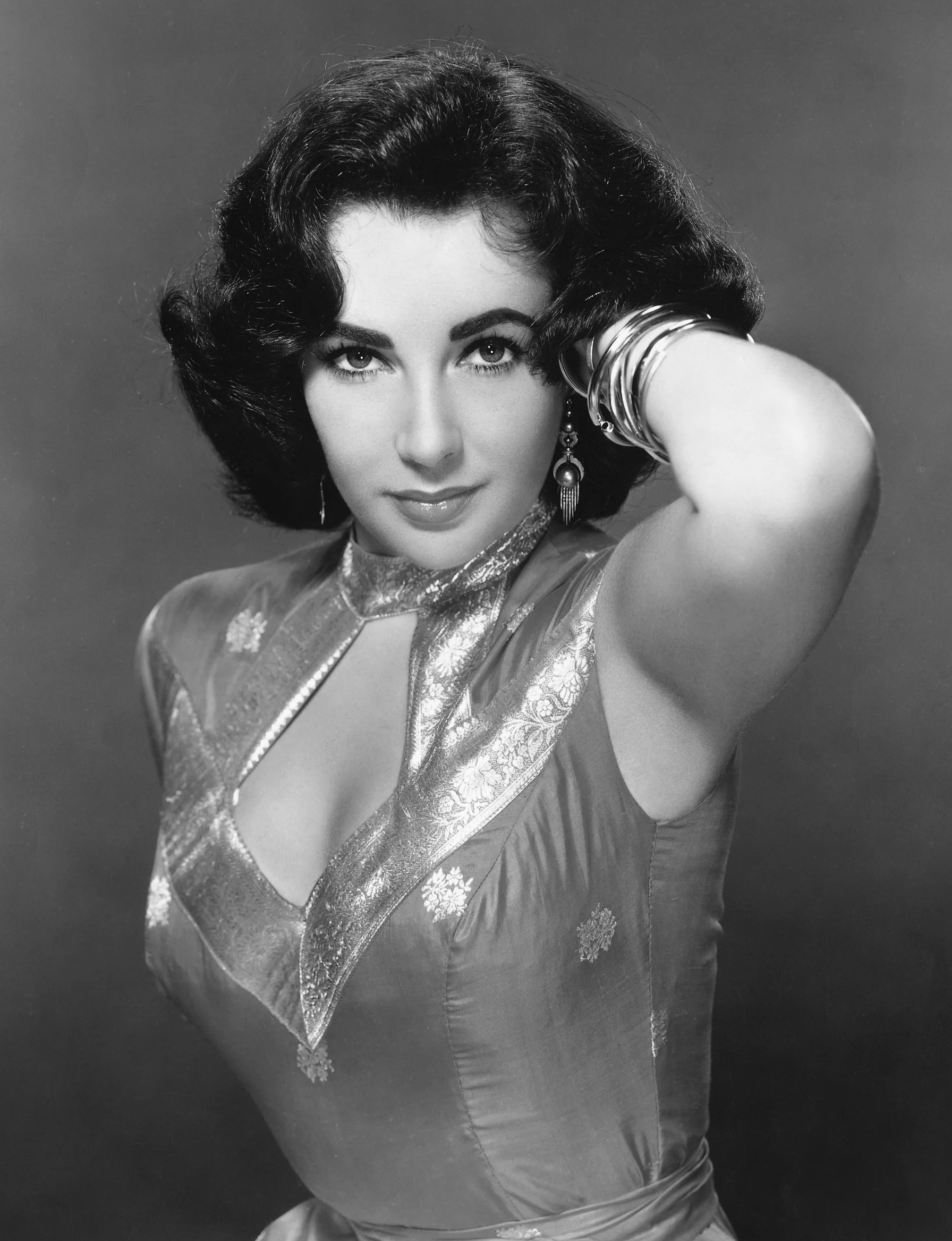 Elizabeth Taylor in a publicity photo by MGM (she was in a contract with MGM until early 1960s), circa late 1950s.